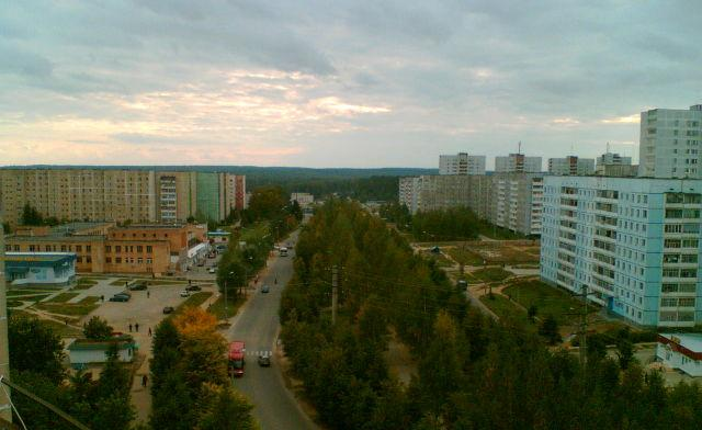 Avenue of Metal-workers in town Yartsevo, Smolensk region, Russia